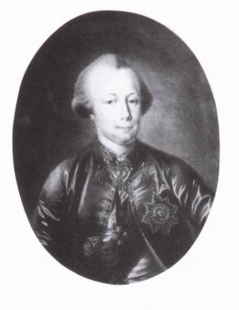 Portrait of Peter I, Grand Duke of Oldenburg (1755-1829)